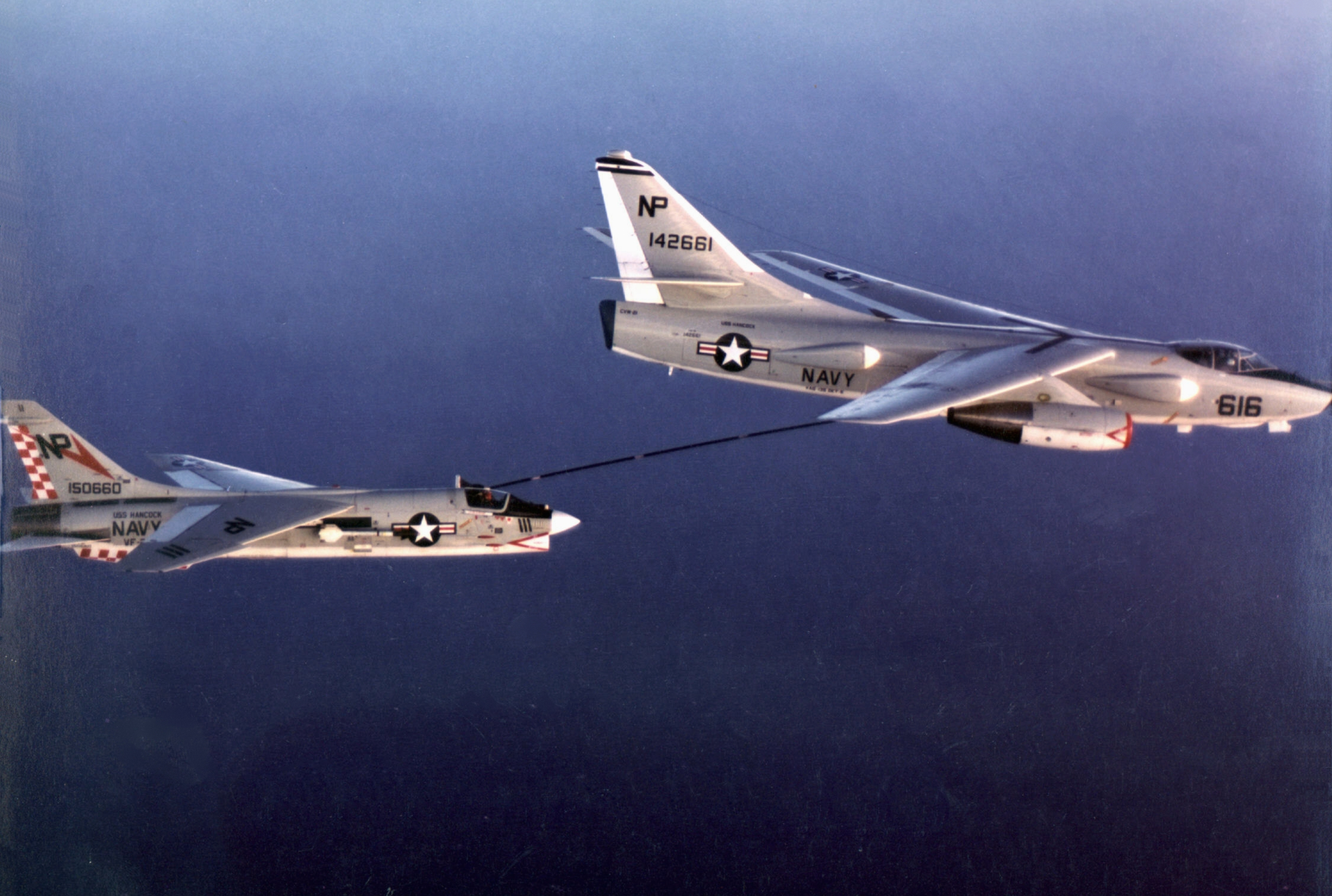 A U.S. Navy Douglas EKA-3B Skywarrior (BuNo 142661) from Tactical Electronic Contermeasures Squadron VAQ-135 Det.5 Black Ravens refuels a Vought F-8J Crusader (BuNo 150660) from Fighter Squadron VF-211 Checkmates off Vietnam. Both squadrons were assigned to Carrier Air Wing 21 (CVW-21) aboard the aircraft carrier USS Hancock (CVA-19) for a deployment to Vietnam from 7 January to 3 October 1972.